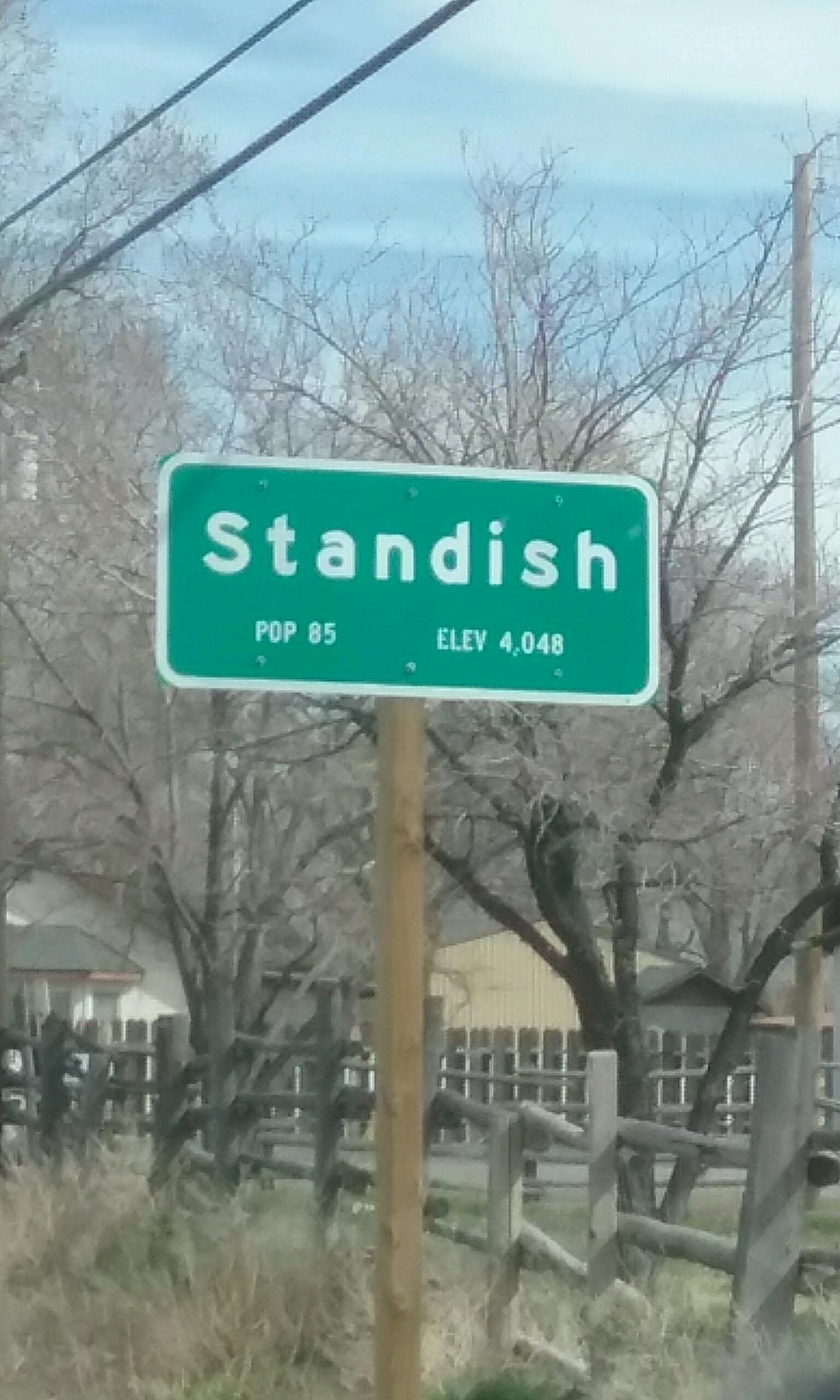 entering Standish,CA sign